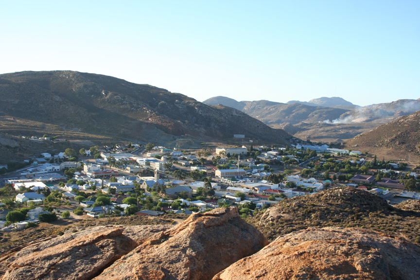 Springbok town center with the rest of the town extending in a cresent shap in both directions around the hill that the picture was taken from.